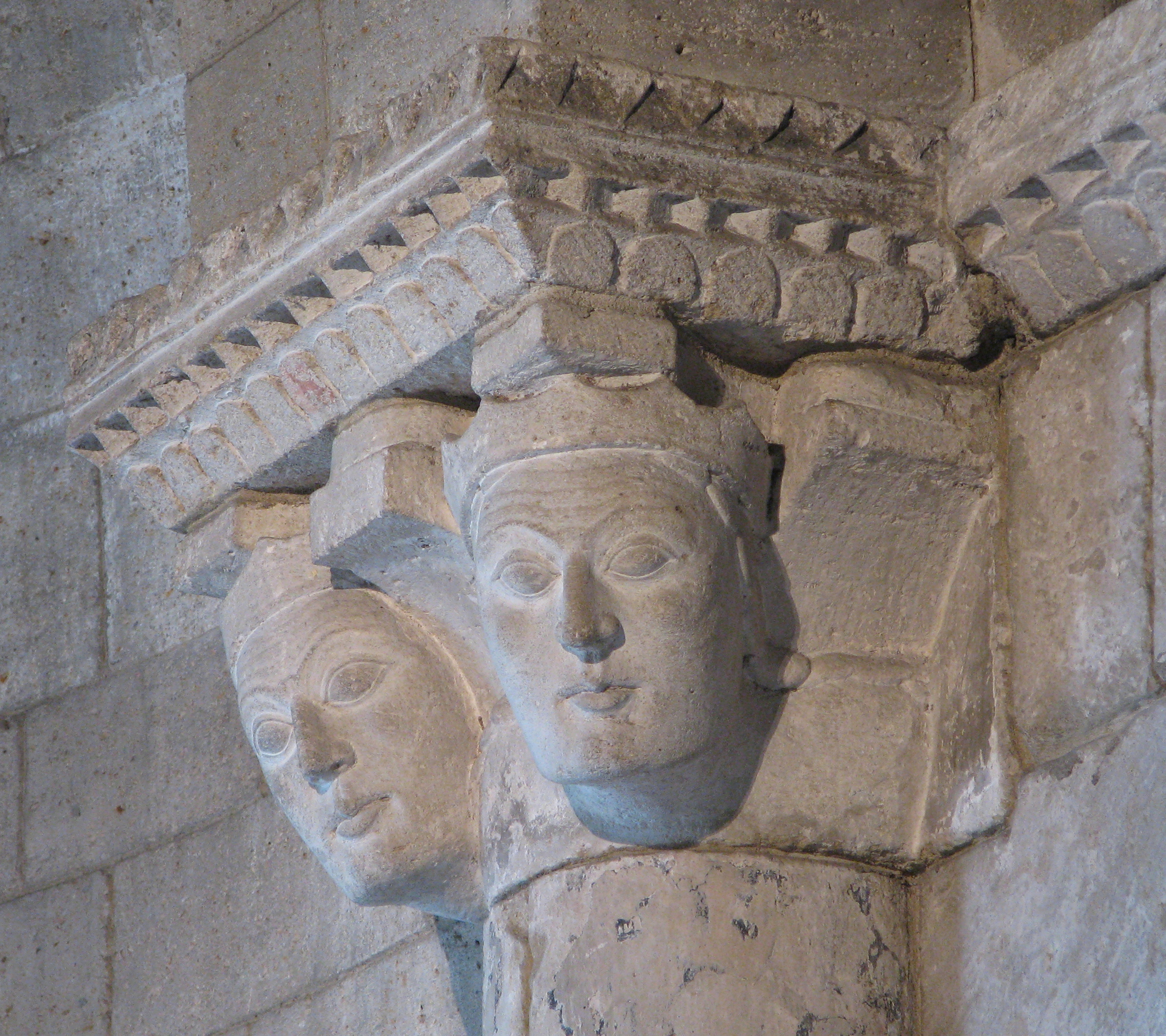 French; Chapel; Installations